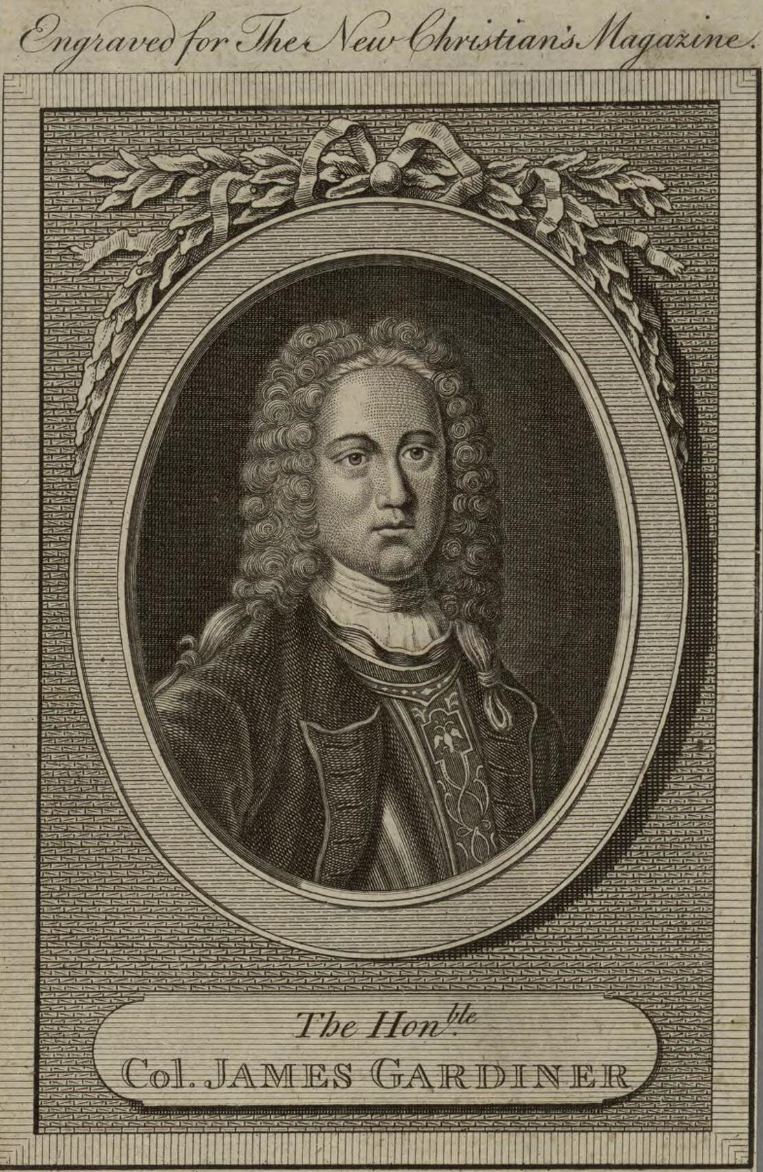 A portrait from the Welsh Portrait Collection at the National Library of Wales. Depicted person: James Gardiner – British Army officer